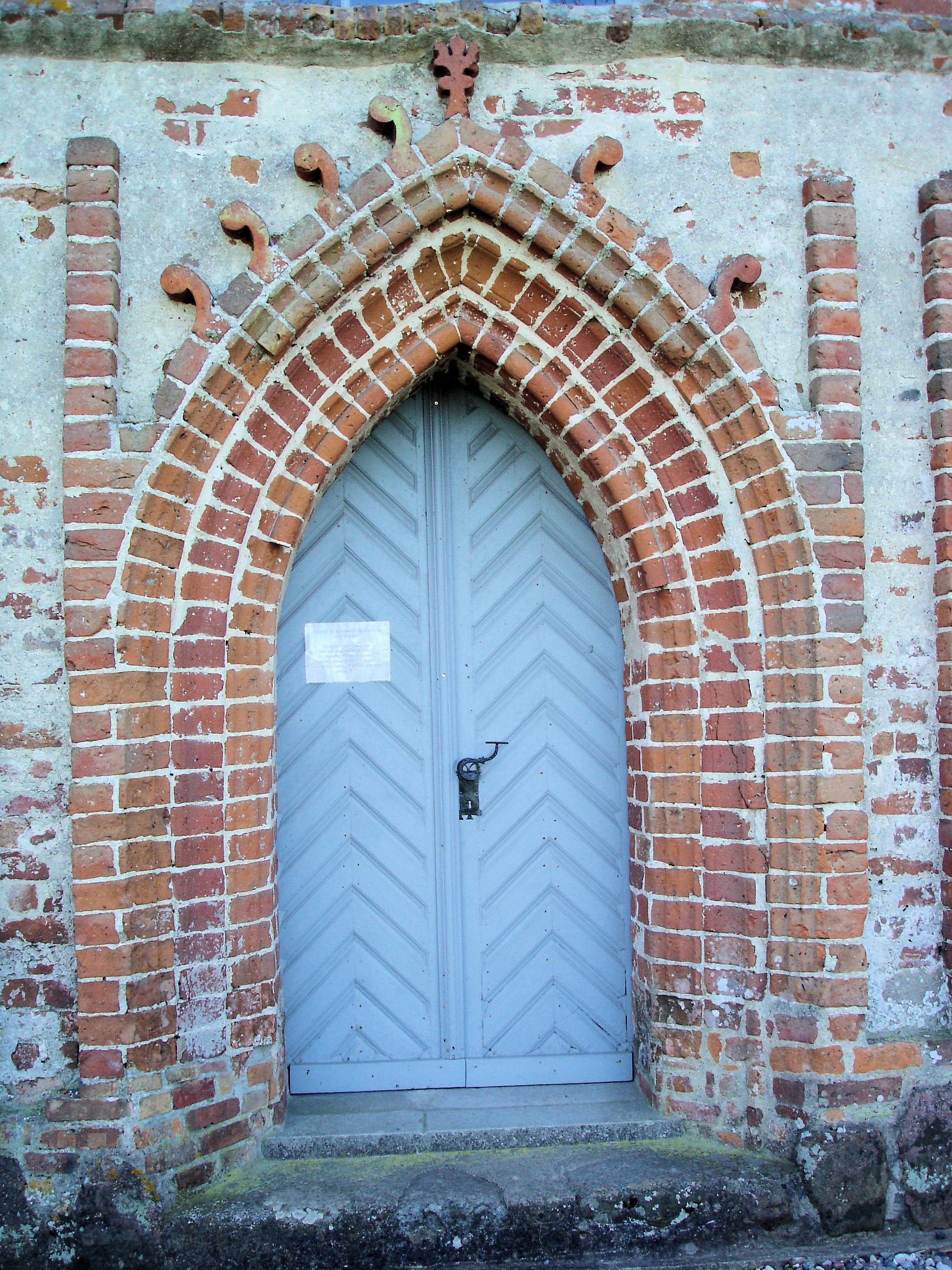 Church Ahrenshagen, Mecklenburg-Vorpommern, Germany